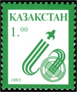 Stamp of Kazakhstan